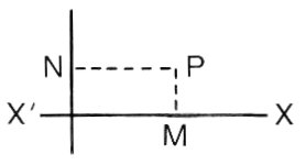 line art of abscissa